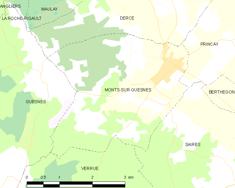 Map of French municipality Monts-sur-Guesnes